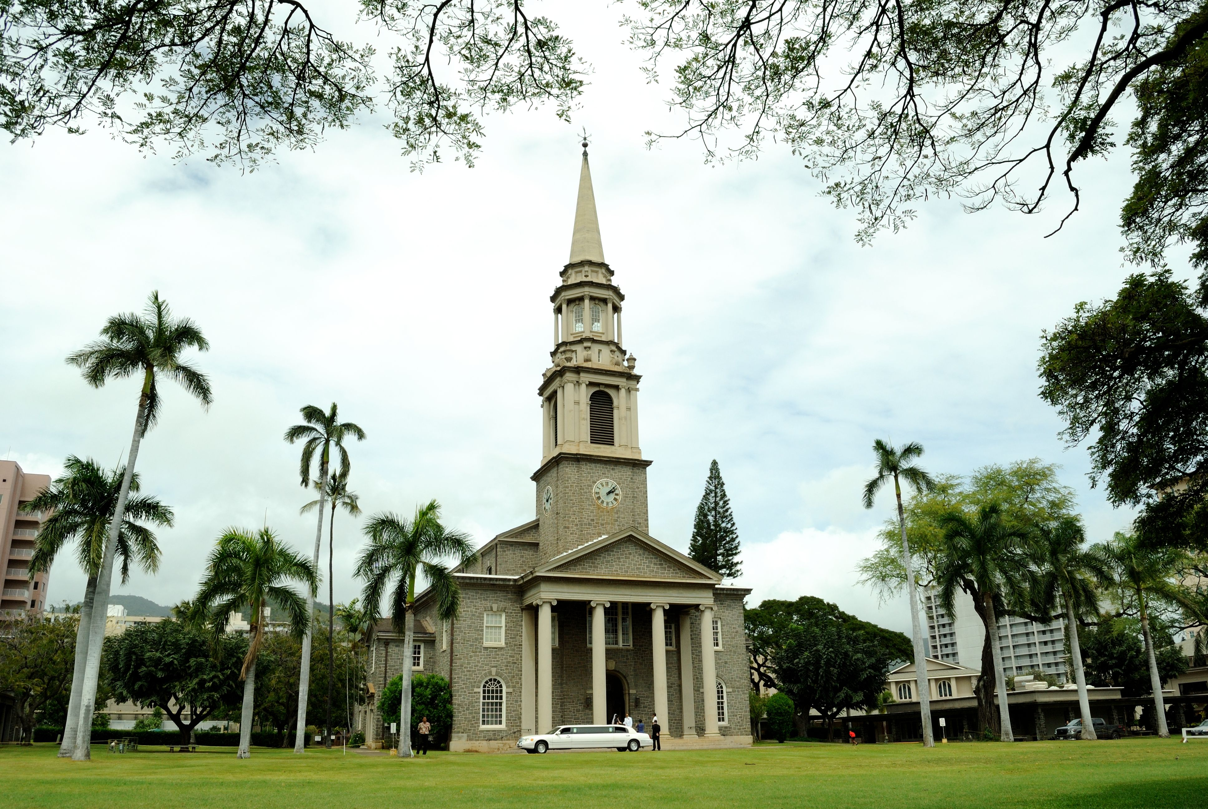 Central Union Church in Honolulu.